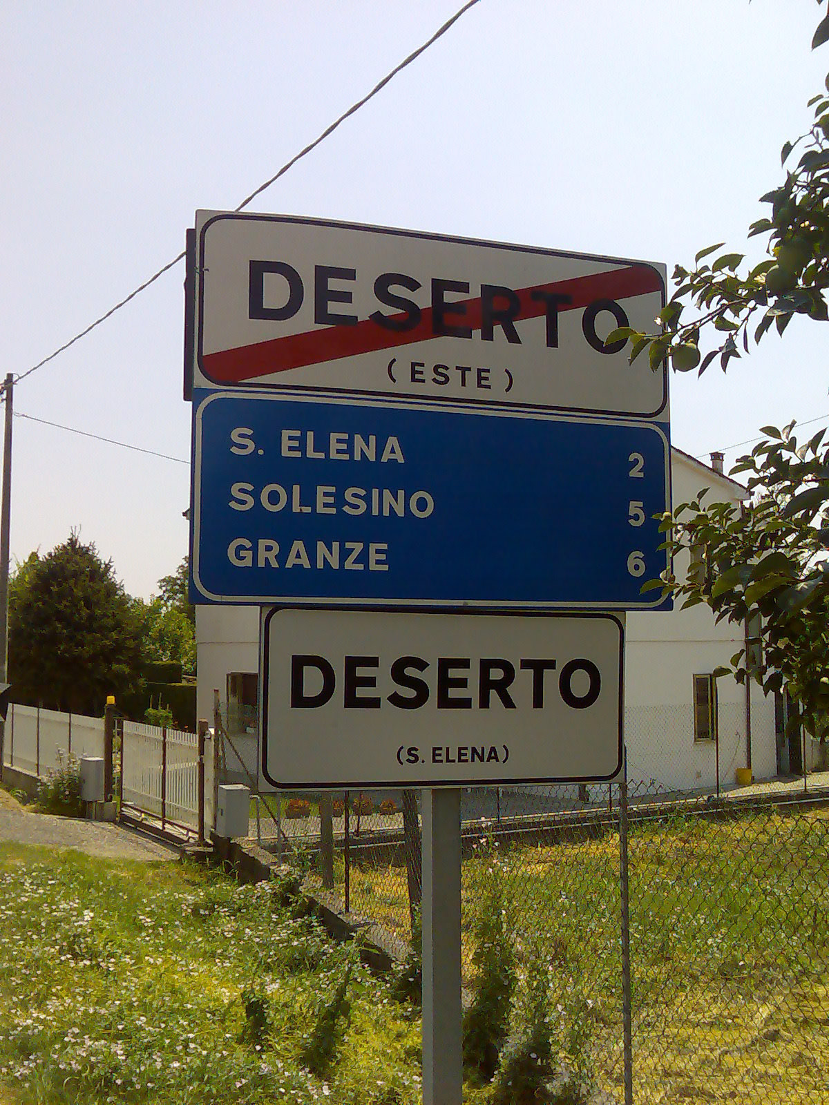 Municipality borders of Sant'Elena and Este crossing Deserto.